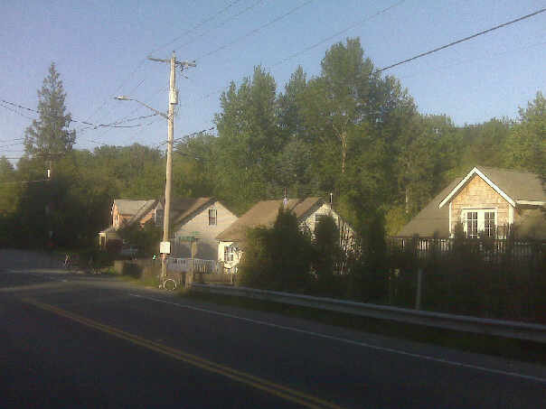 Photo of typical houses along Preston-Fall City Rd in Preston, WA (looking towards Fall City).